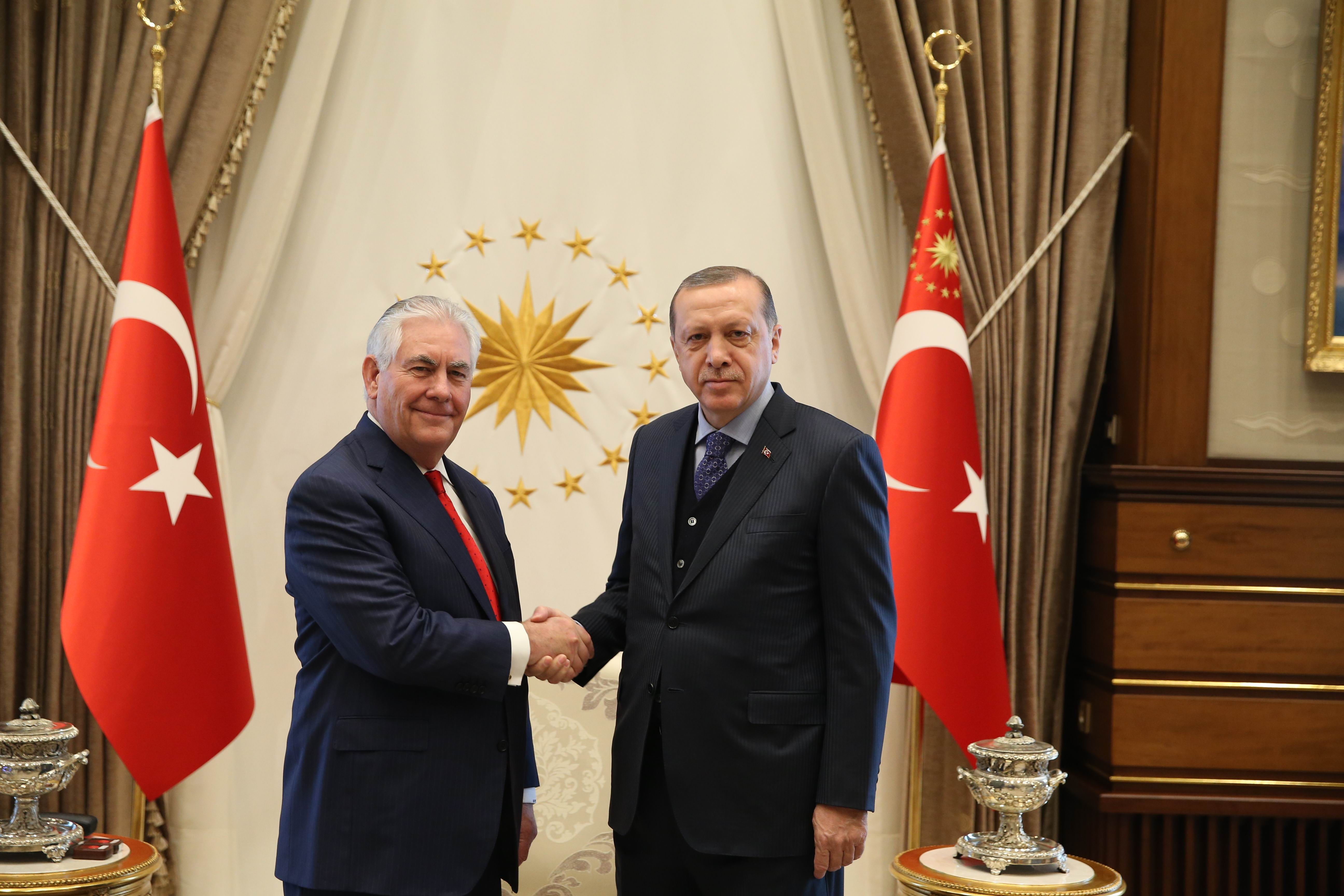 U.S. Secretary of State Rex Tillerson meets with Turkish President Recep Tayyip Erdogan at the Presidential Complex in Ankara, Turkey, on March 30, 2017. [State Department photo/ Public Domain]